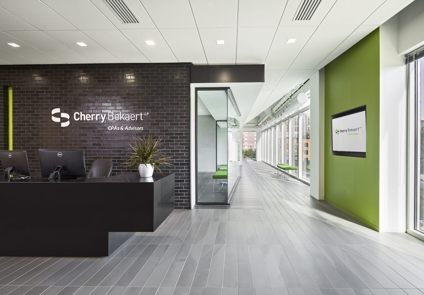 The lobby of Cherry Bekaert’s Greenville office.